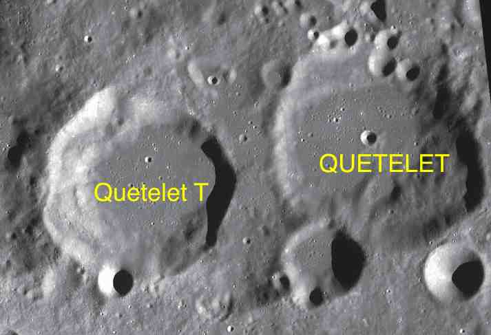 Part of the chart LAC-34 used for the presentation